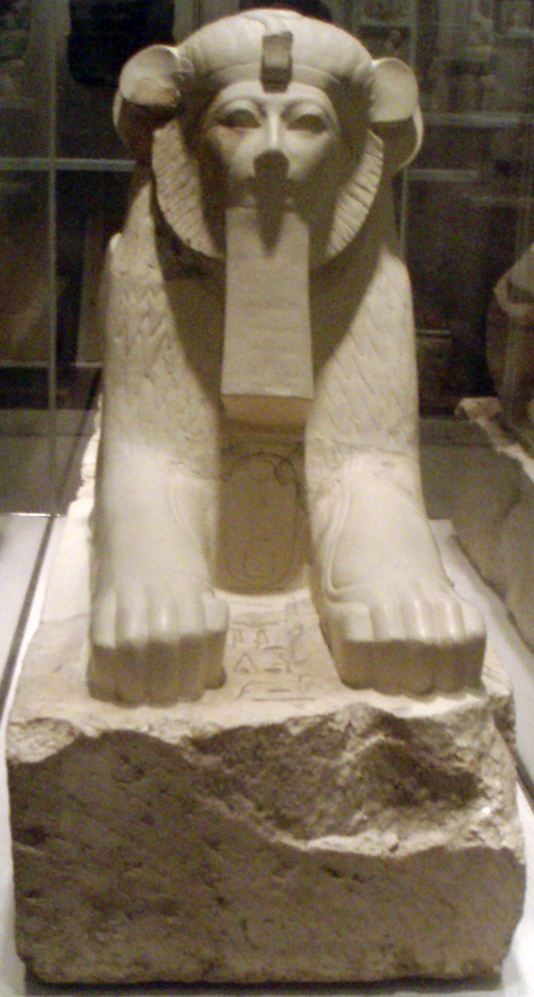 Small sphinx of Hatshepsut, originally positioned on the newel posts of the lower ramp of her temple complex. 18th dynasty, circa 1503-1482 B.C.